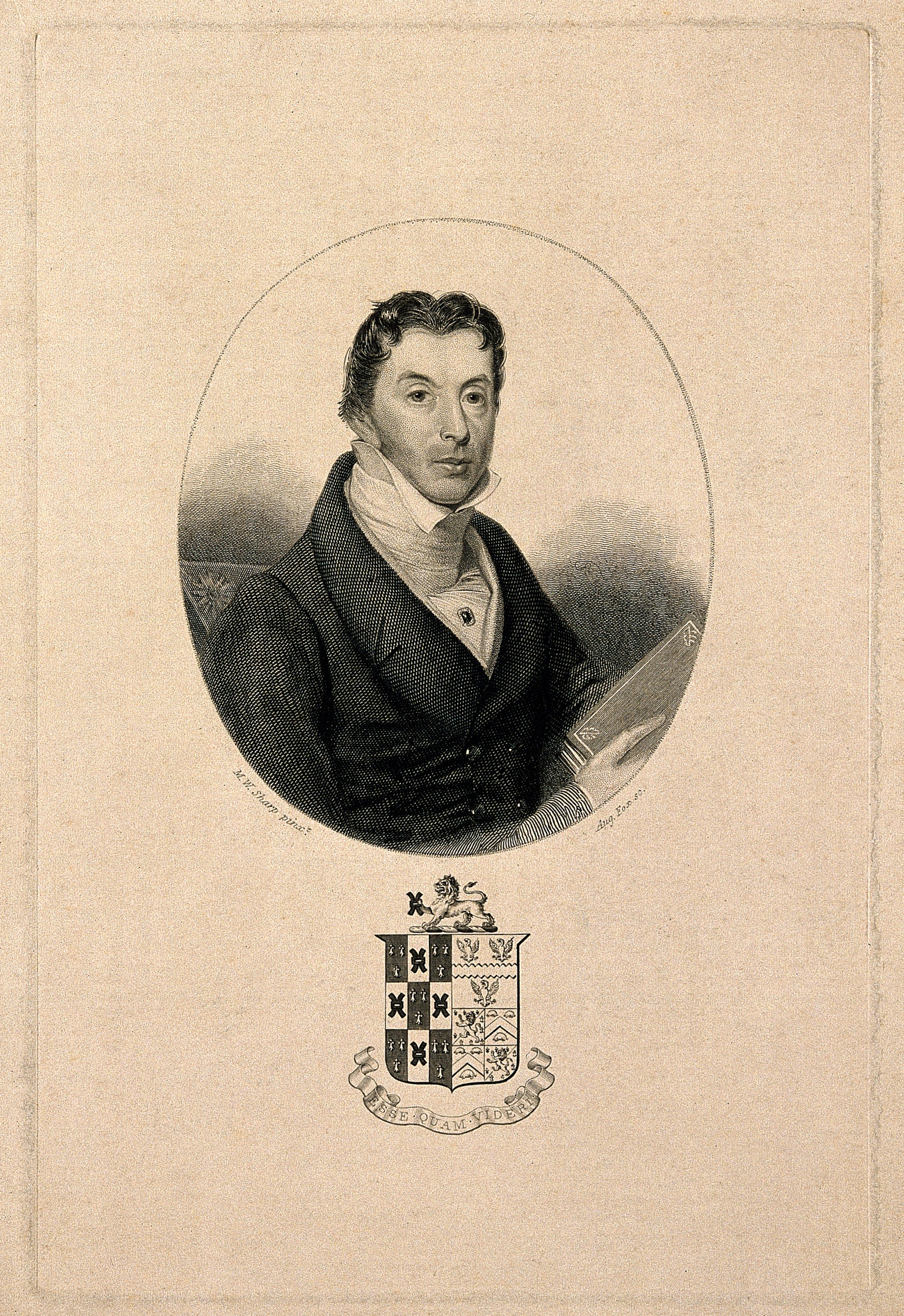 Dawson Turner. Stipple engraving by A. Fox after M. W. Sharp. Iconographic Collections Keywords: portrait prints; stipple prints; Dawson Turner